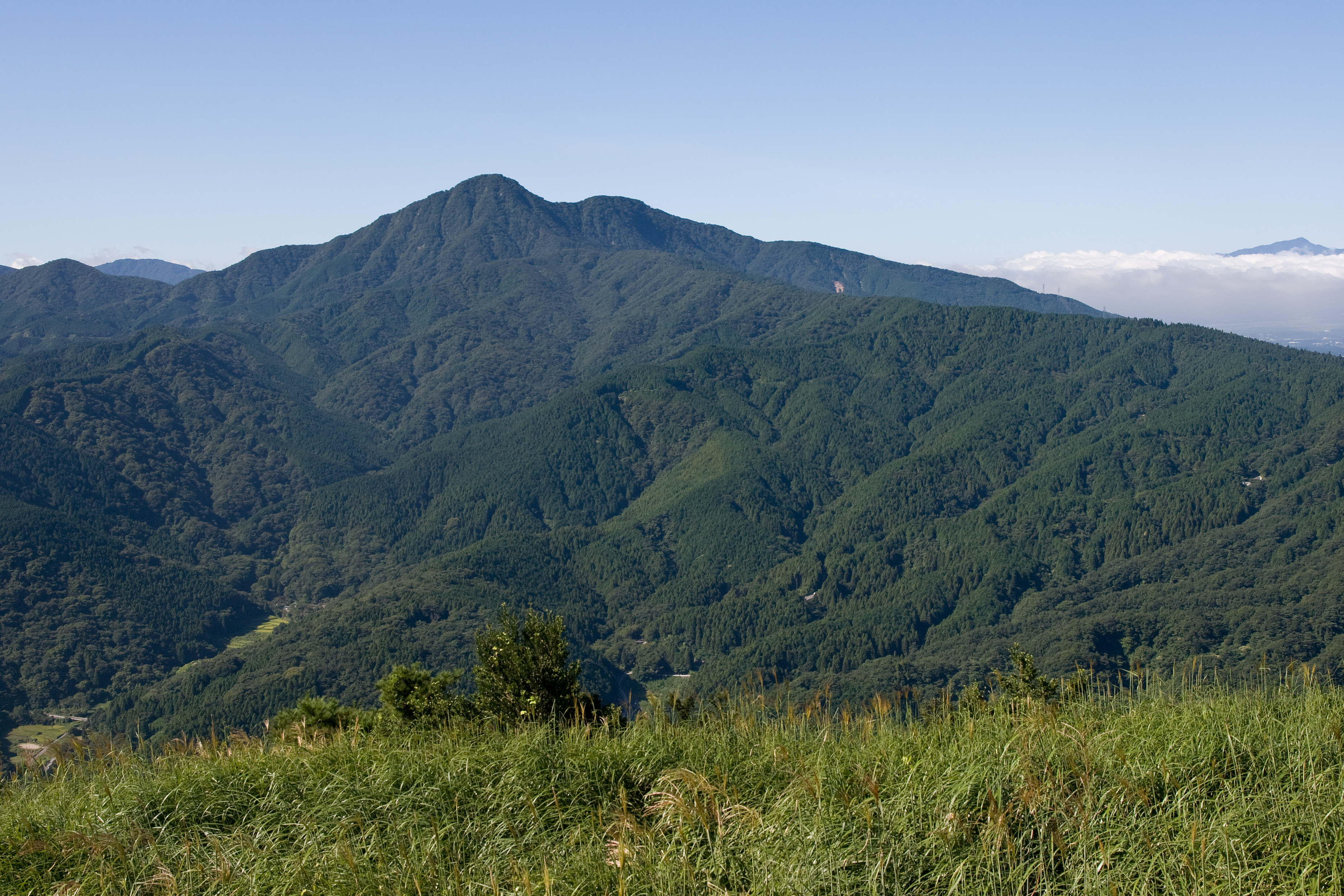 Mt.Kintoki as seen from Mt.Yaguradake in Kanagawa Prefecture, Honshu, Japan.